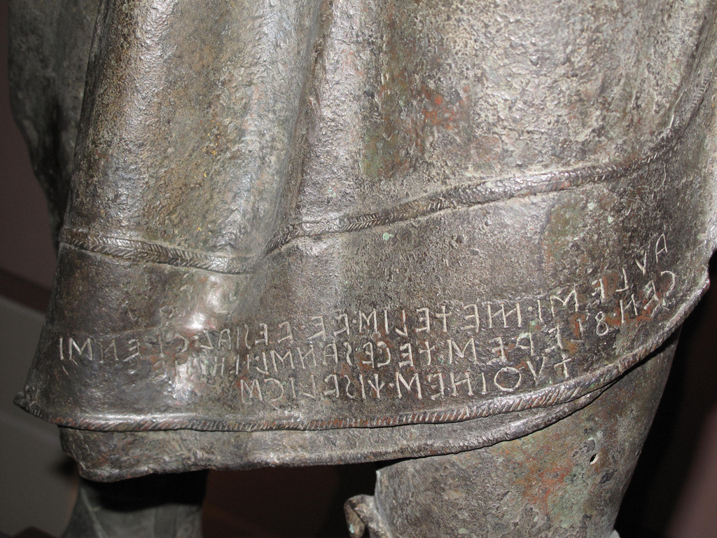 Aule Metele is a Romano-Etruscan work in the Roman style and depicts an Etruscan man wearing a short Roman toga and footwear. His right arm is raised to indicate that he is an orator addressing the public. An inscription on the hem of his toga gives his name and parentage.